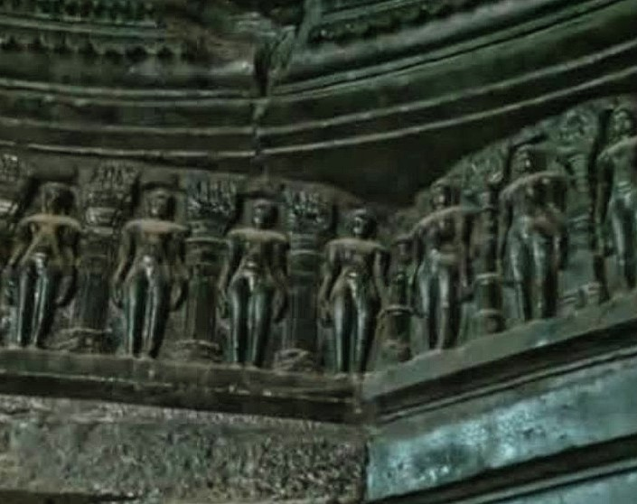 Paul Dundas in his book 'The Jains' mentions that Mahalaxmi temple Kolhapur was a Jain temple. The Jains